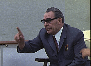 Soviet Union Leader Leonid Brezhnev during a visit to the US in 1973